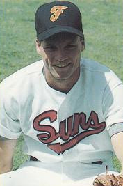 Professional baseball player Dan Simonds